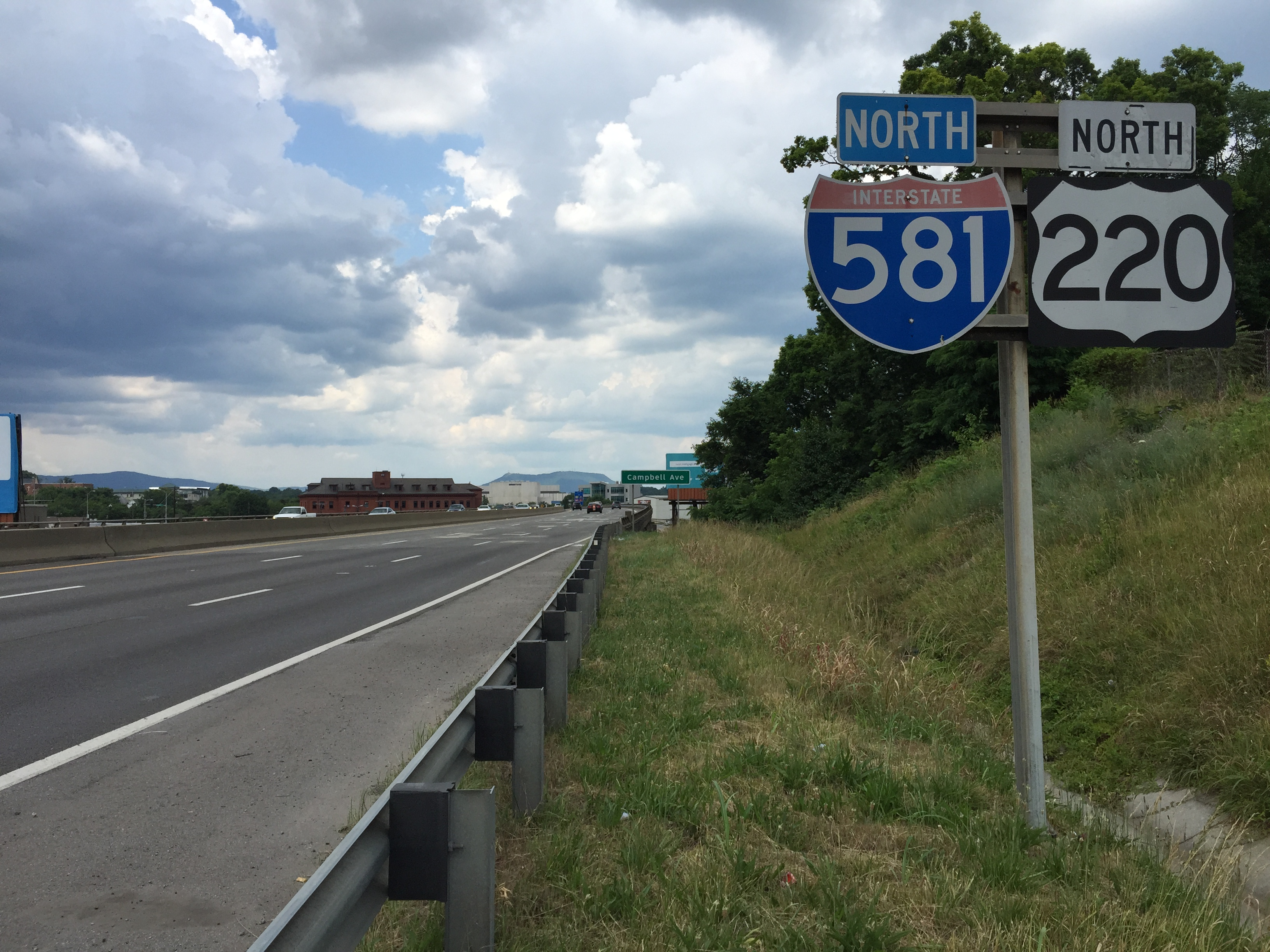 View north along Interstate 581 and U.S. Route 220 just north of Exit 6 (Virginia State Route 24/Elm Avenue, Vinton) in Roanoke, Virginia